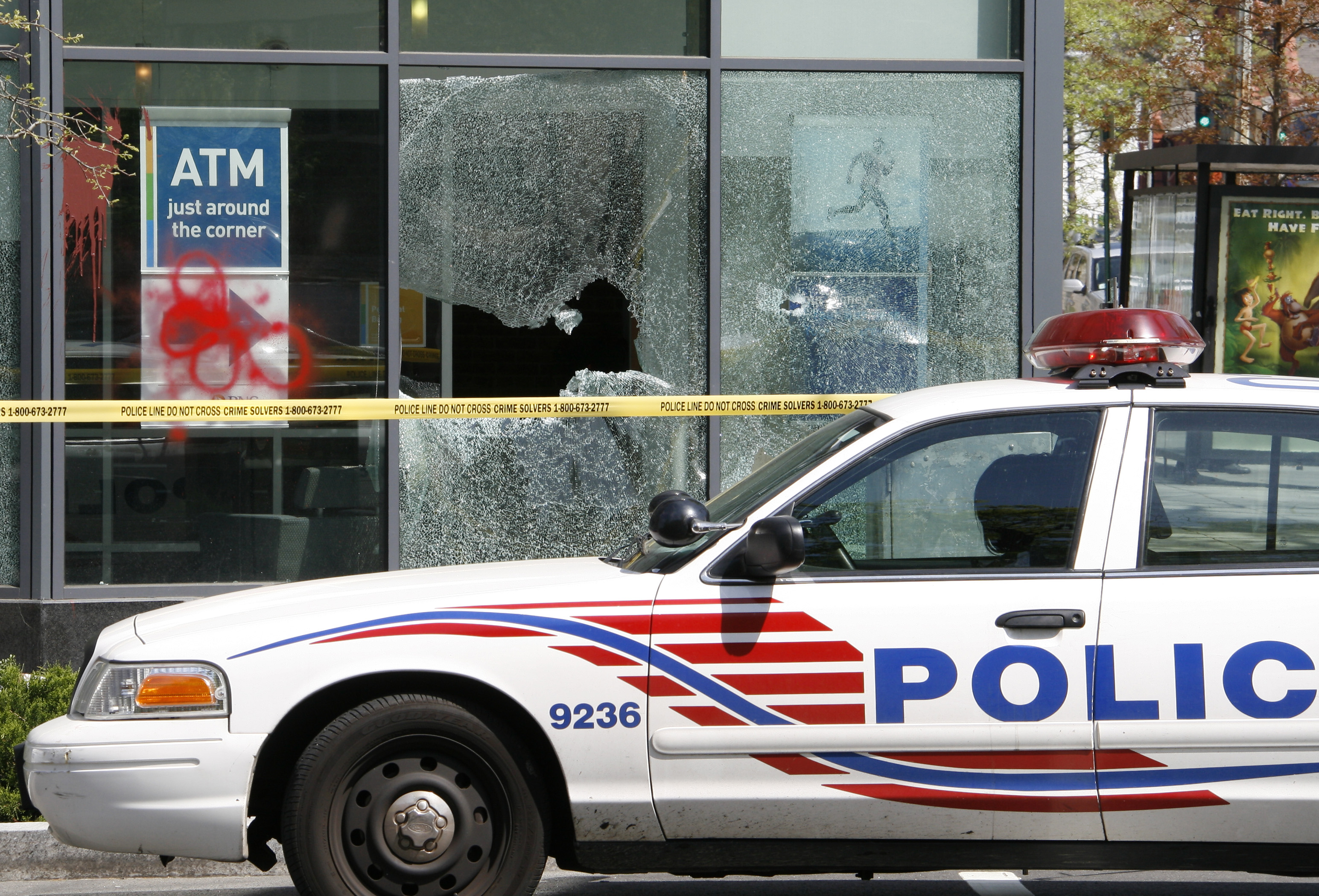 World Bank and International Monetary Fund protesters vandalized two bank branches (PNC & Wachovia) as well as vehicles parked at a Whole Foods Market in the Logan Circle neighborhood of Washington, D.C.